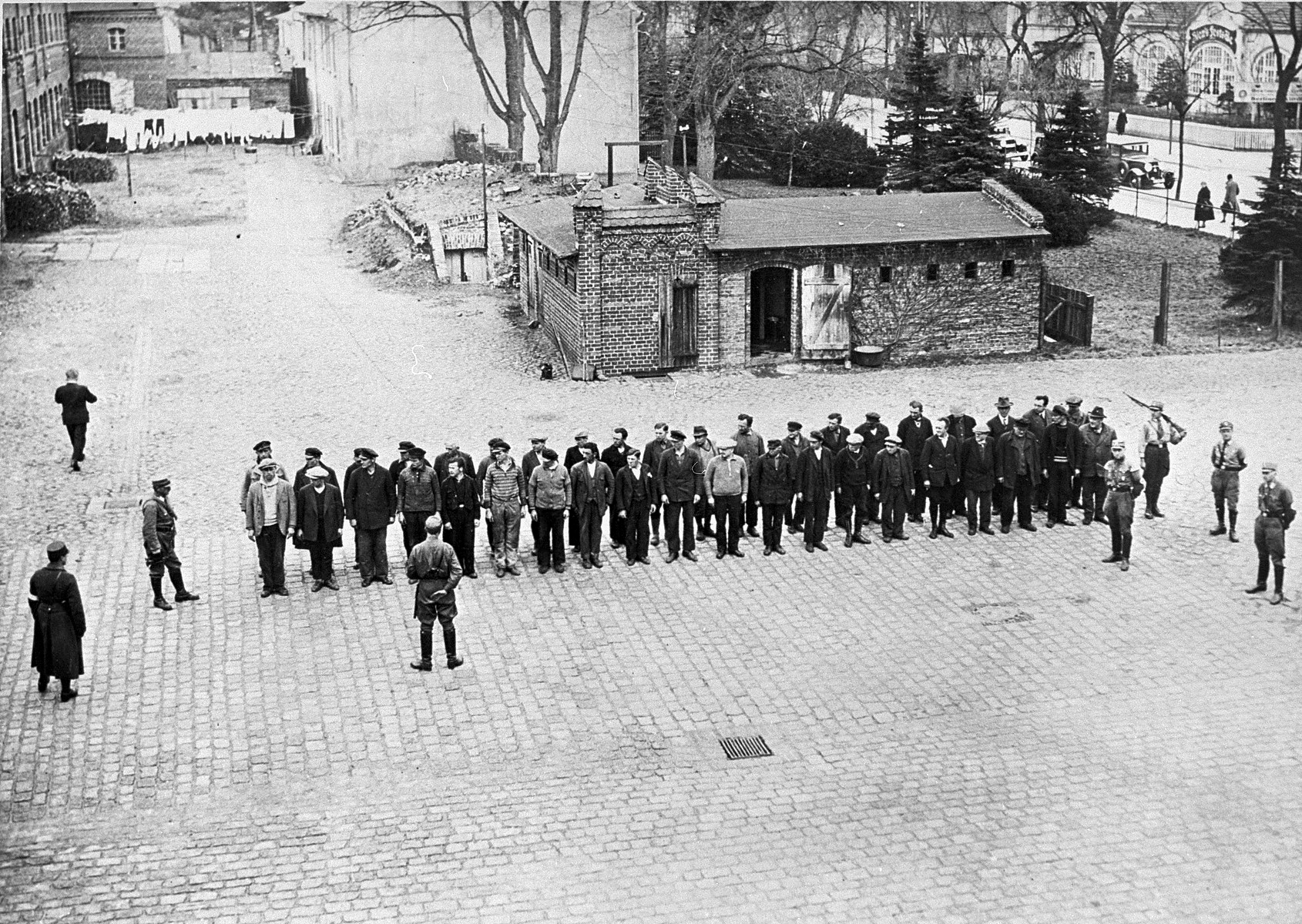 see title